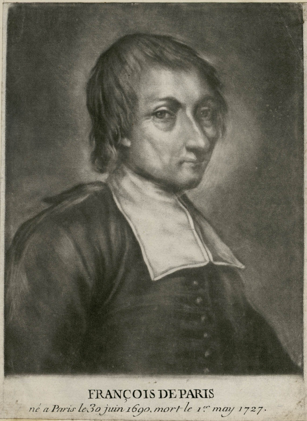 François de Pâris (1690-1727) diacre français et janséniste